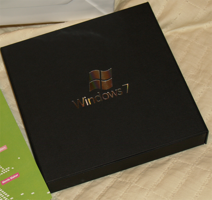 Windows 7 ultimate edition case / distributed while blogger party in South Korea